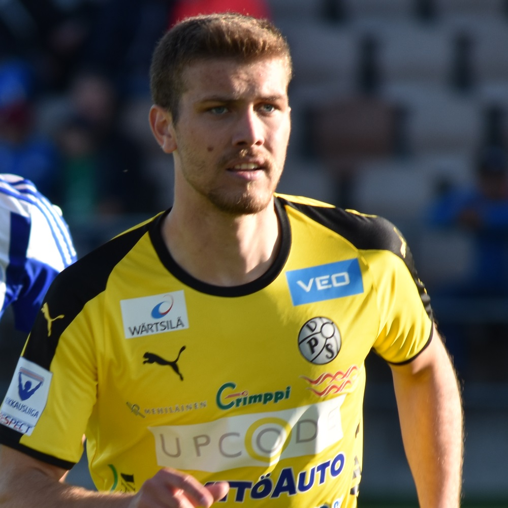 Association football player Joonas Vahtera (VPS)